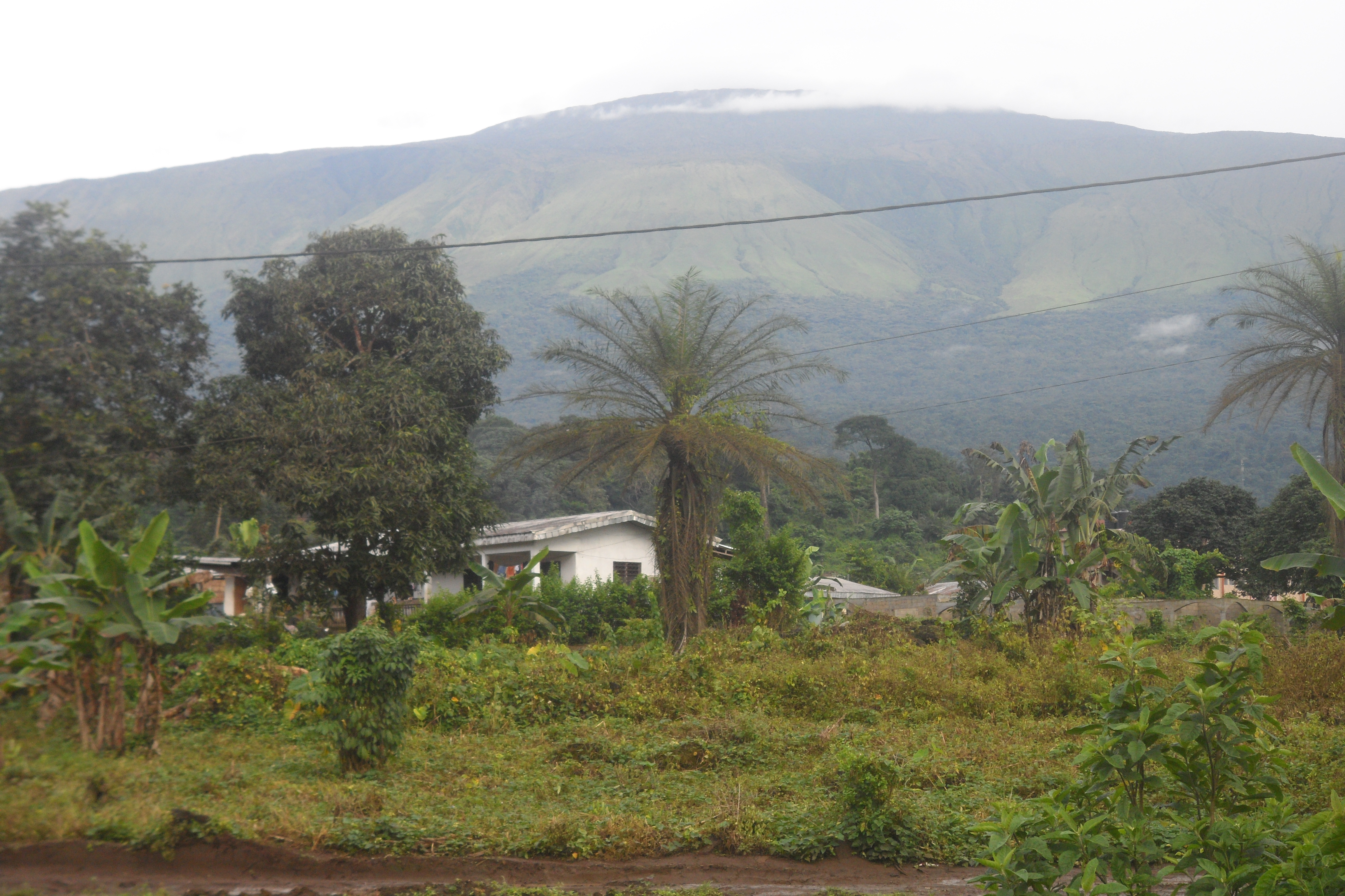 Mt Cameroon, on a bright sunny morning